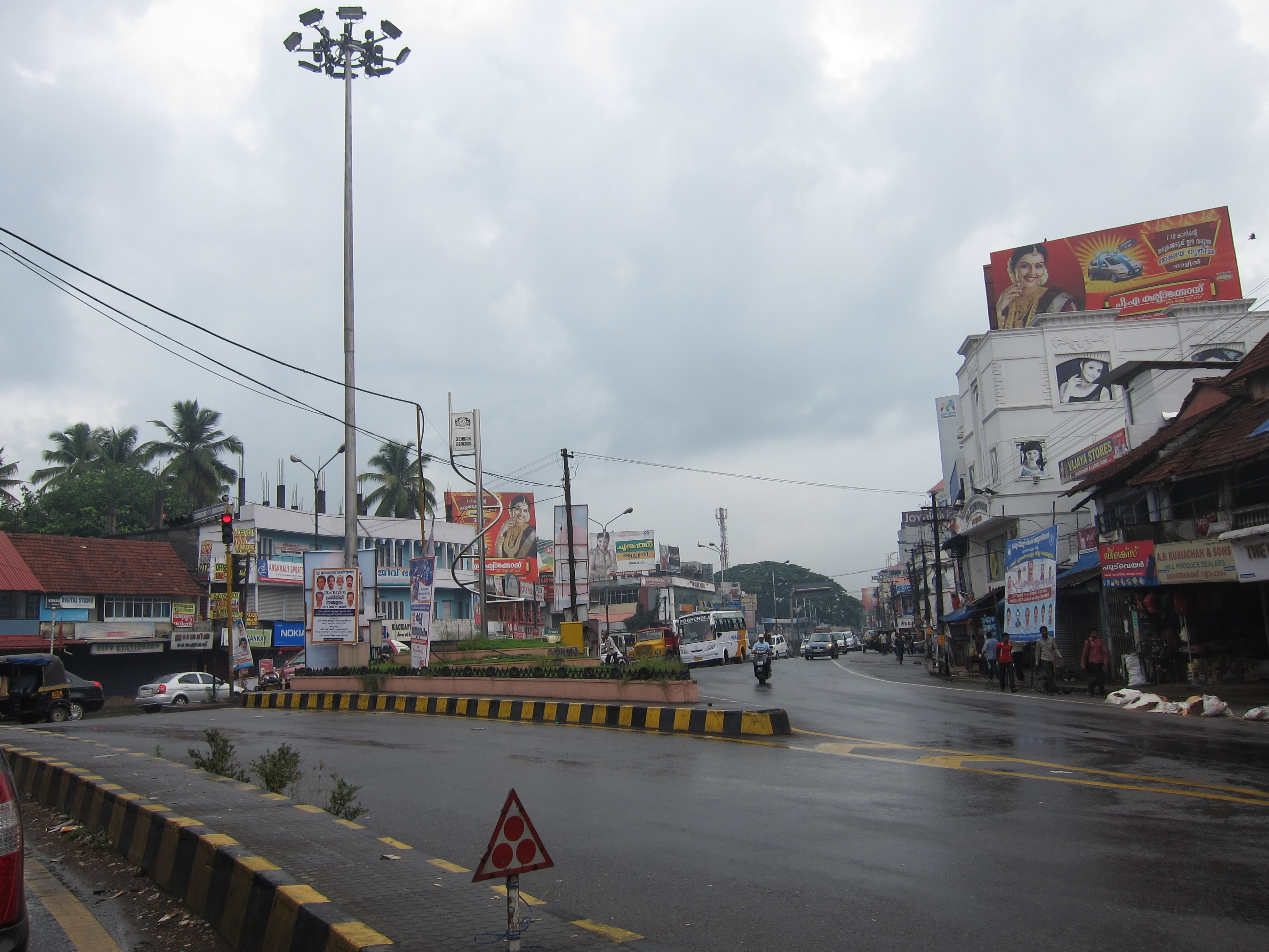 Angamali Town - അങ്കമാലി പട്ടണം എം.സി റോഡിൽ നിന്ന് എൻ.എച്ച് 544 ലേക്ക് Ernakulam - എറുണാകുളം